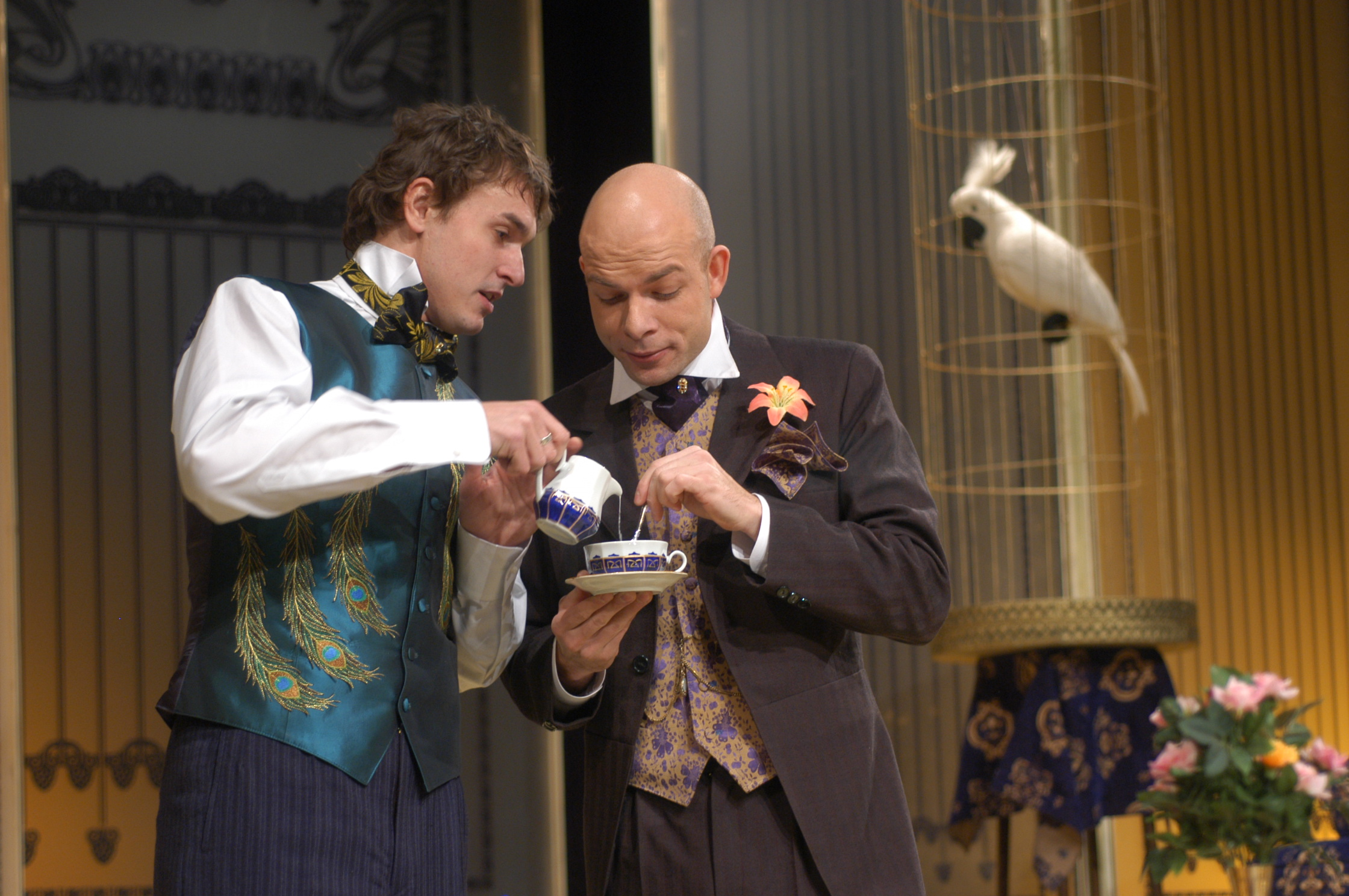 The Importance of Being Earnest by Městské divadlo Brno